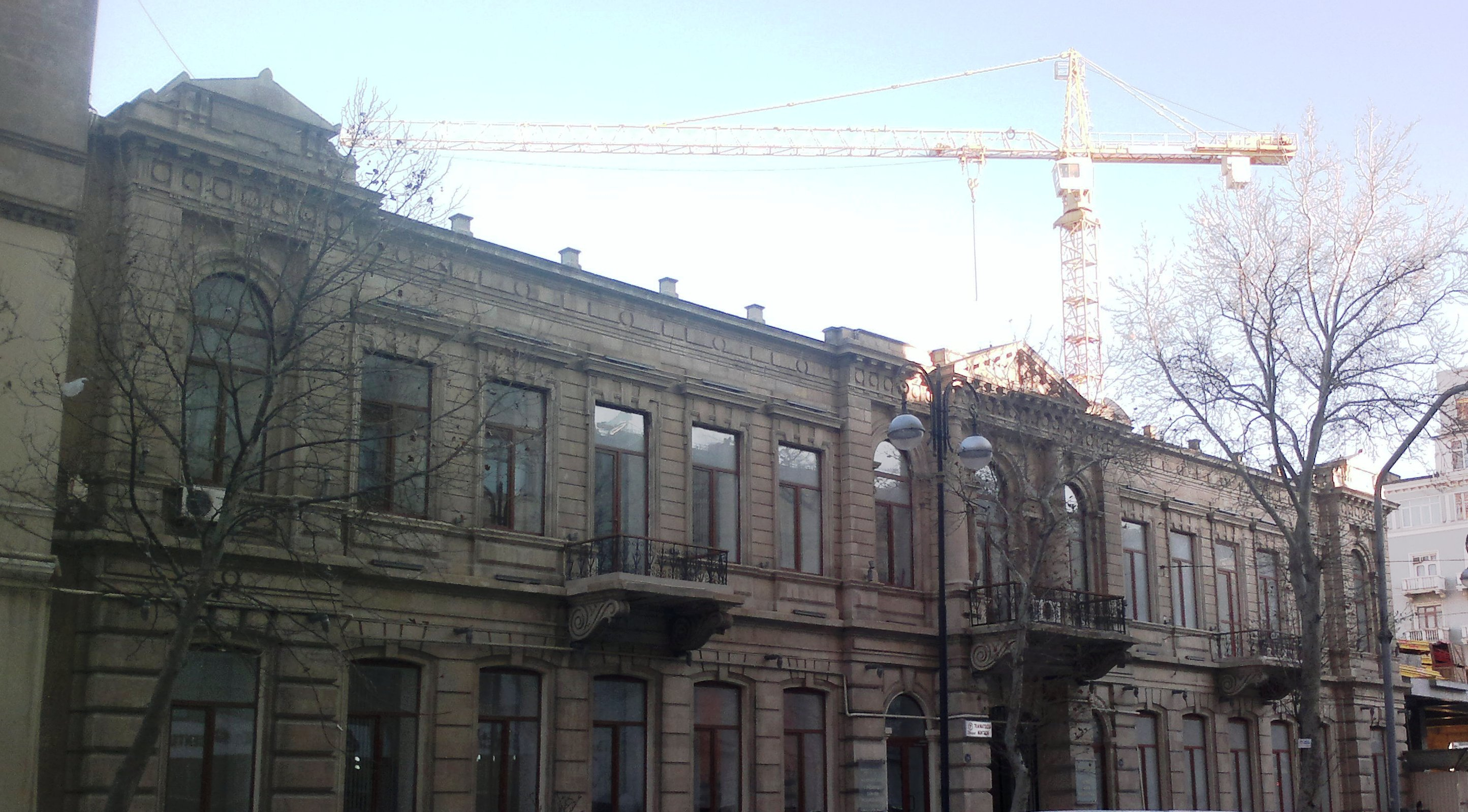 Bulding of hospital № 1 on Bulbul Avenue 8. Built in 1892